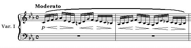 The first measures of S. Rachmaninoff's first variation on a theme of Chopin (op. 22).